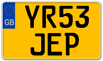 I declare that this picture was entiliry my work. I made it mi self with the computer.